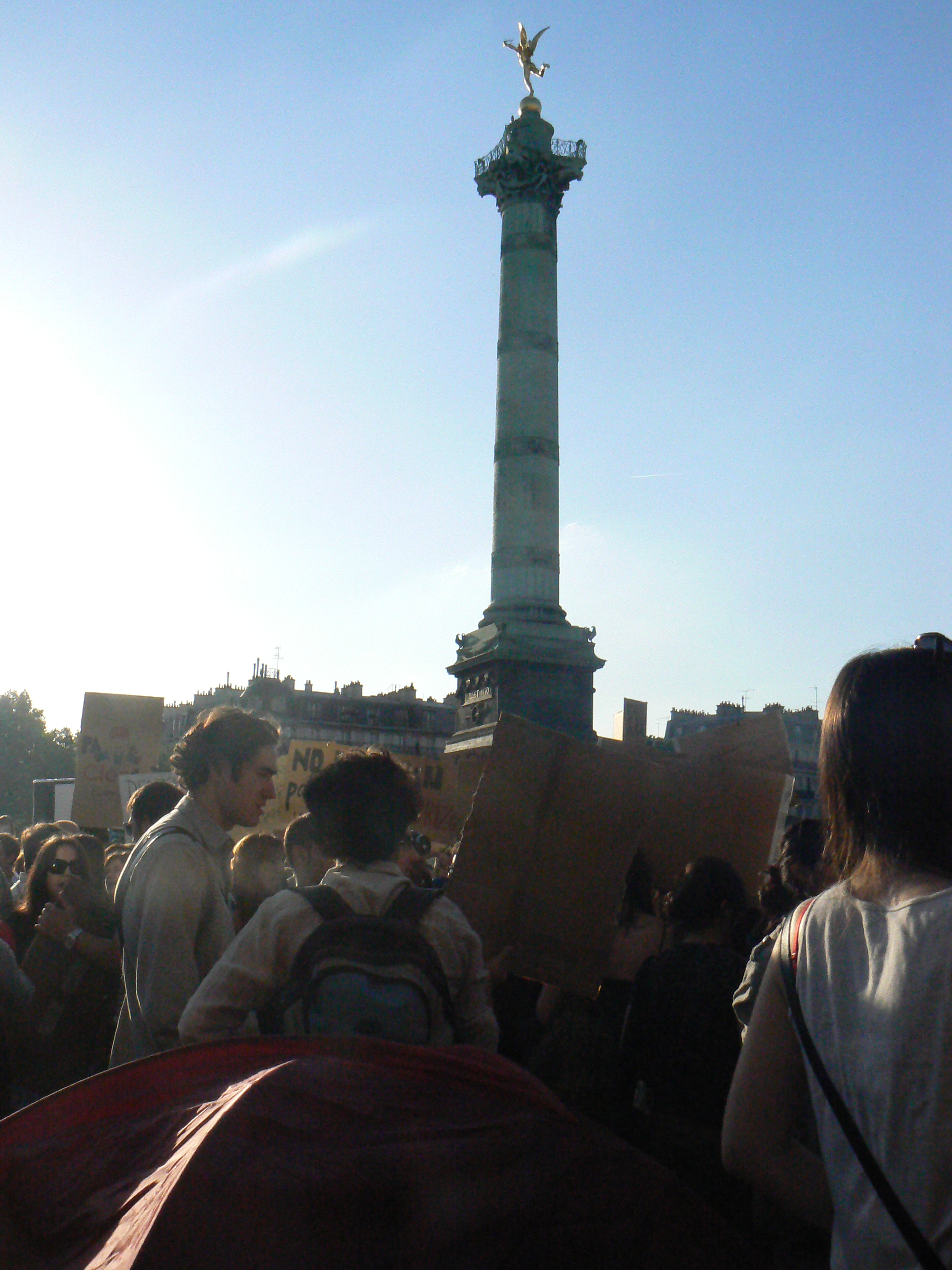 May 2011 manifestations of outrage for "real democracy", near the July Column at the Place de la Bastille. French citizens and residents protest..